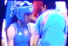 Jeyvier Cintrón (PUR, blue) at the Excel Arena, 2012